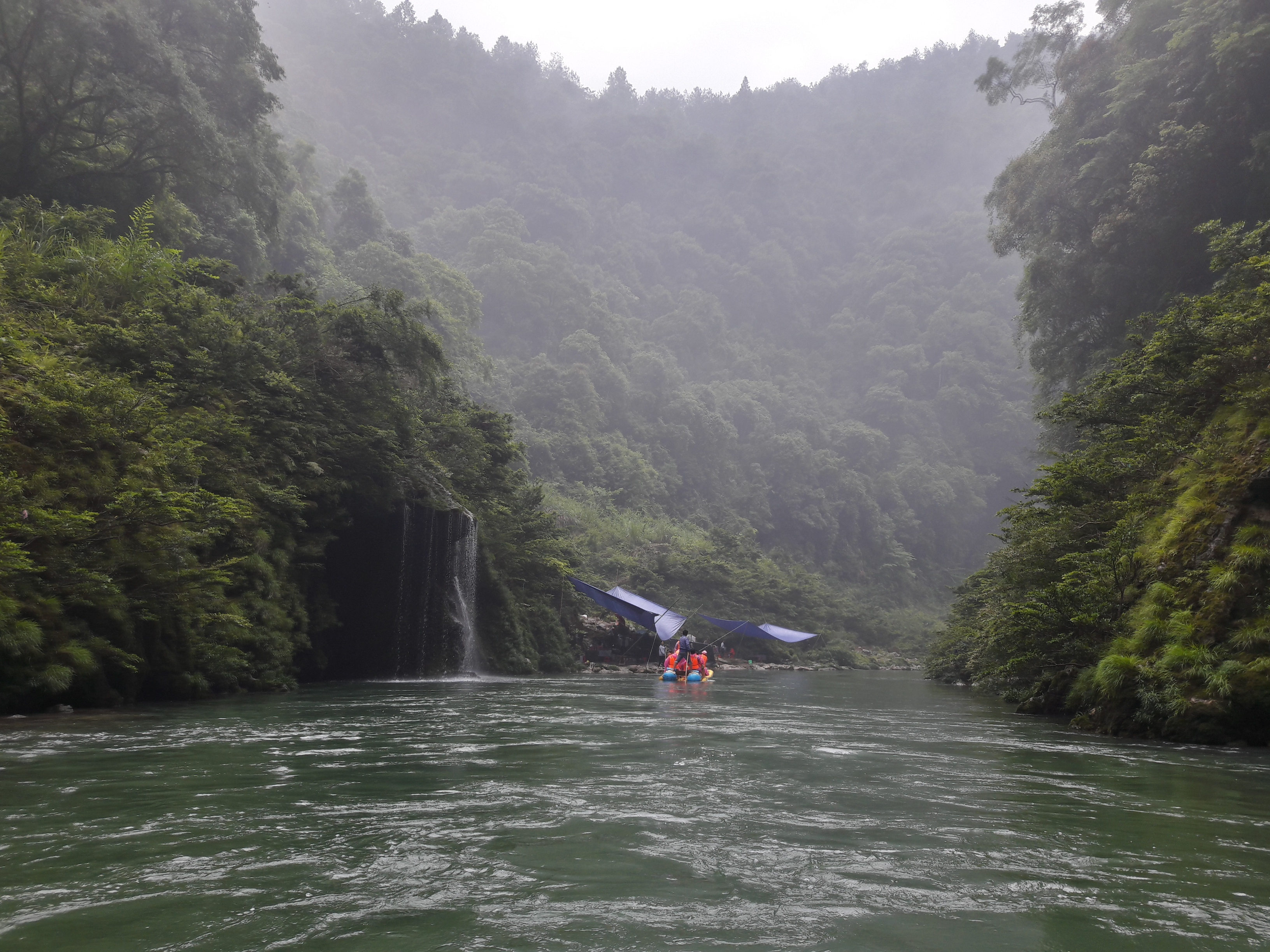 Mengdong he